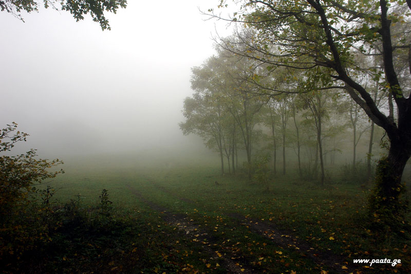 Vashlovani National Park, SE Georgia